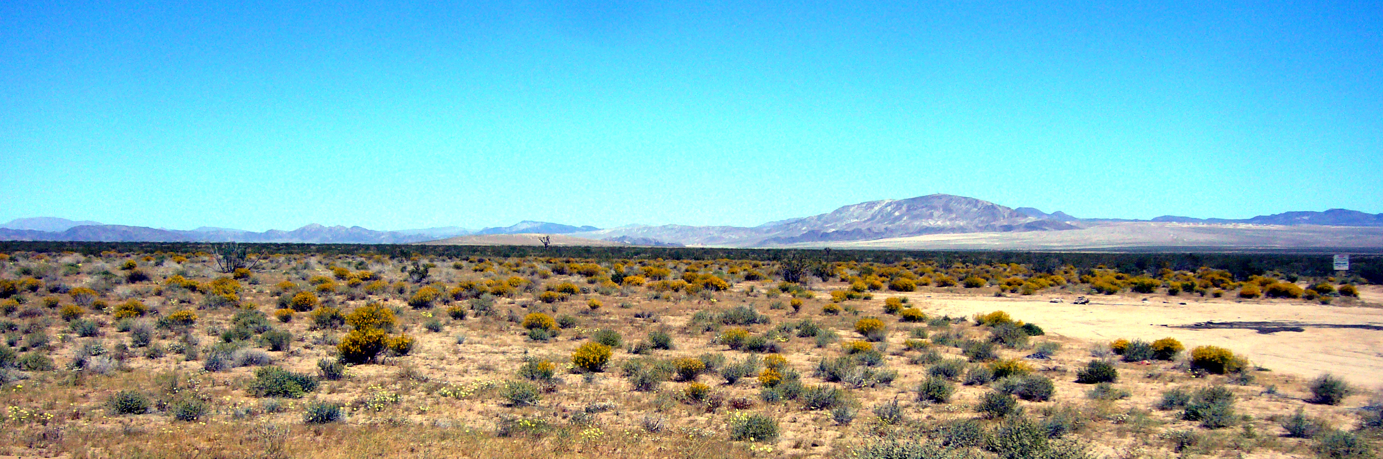 Tumbleweeds blooming in the Mojave in April, due to heavy winter rains.